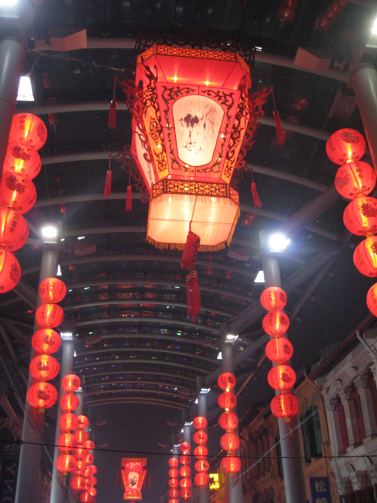 Mid-Autumn Festival in Chinatown, Singapore in 2006.